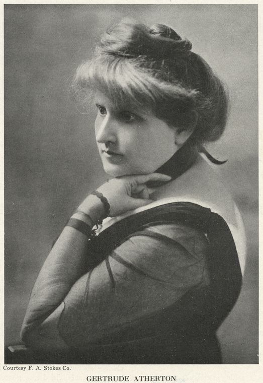 American writer Gertrude Atherton